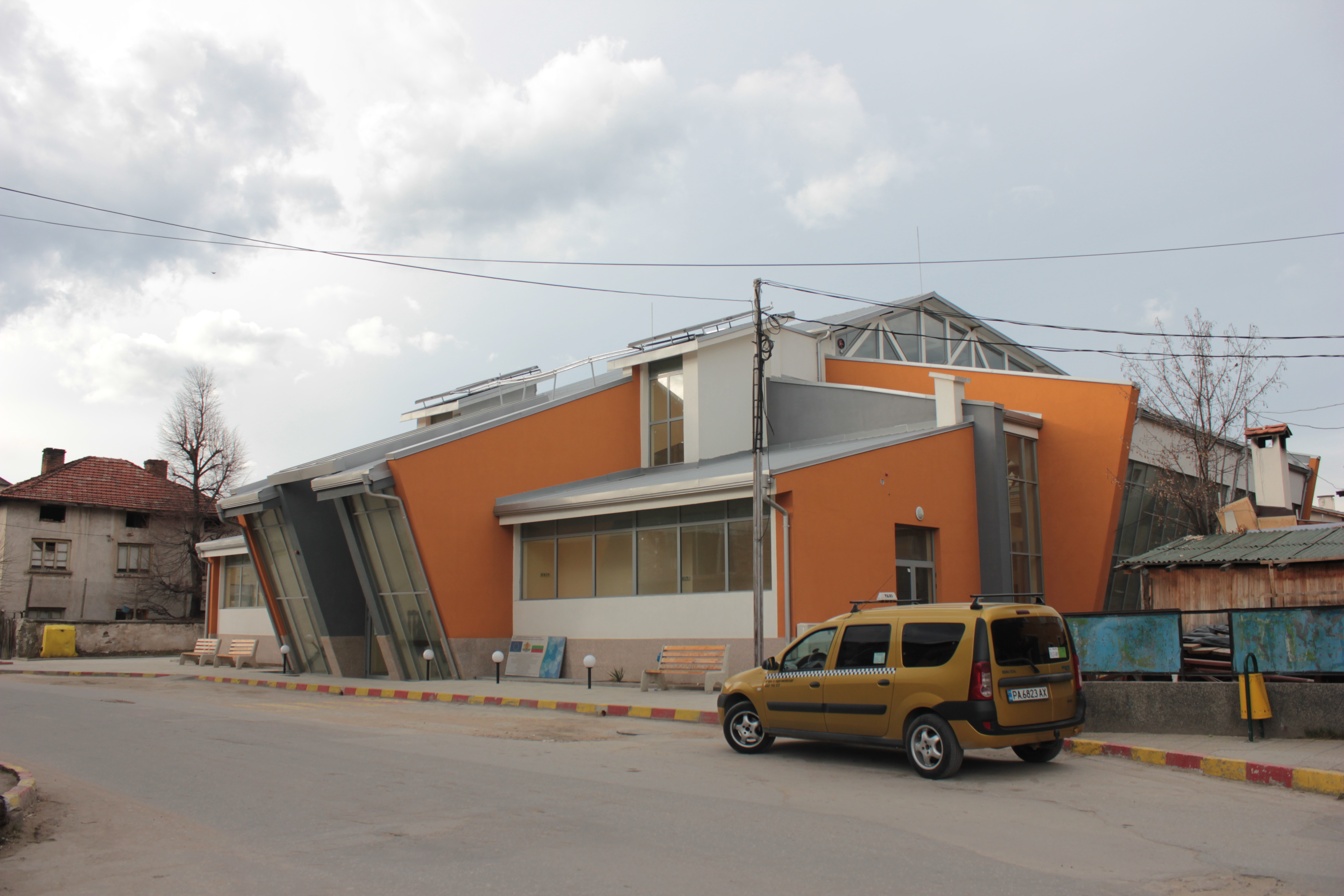 Kostandovo sport Hall